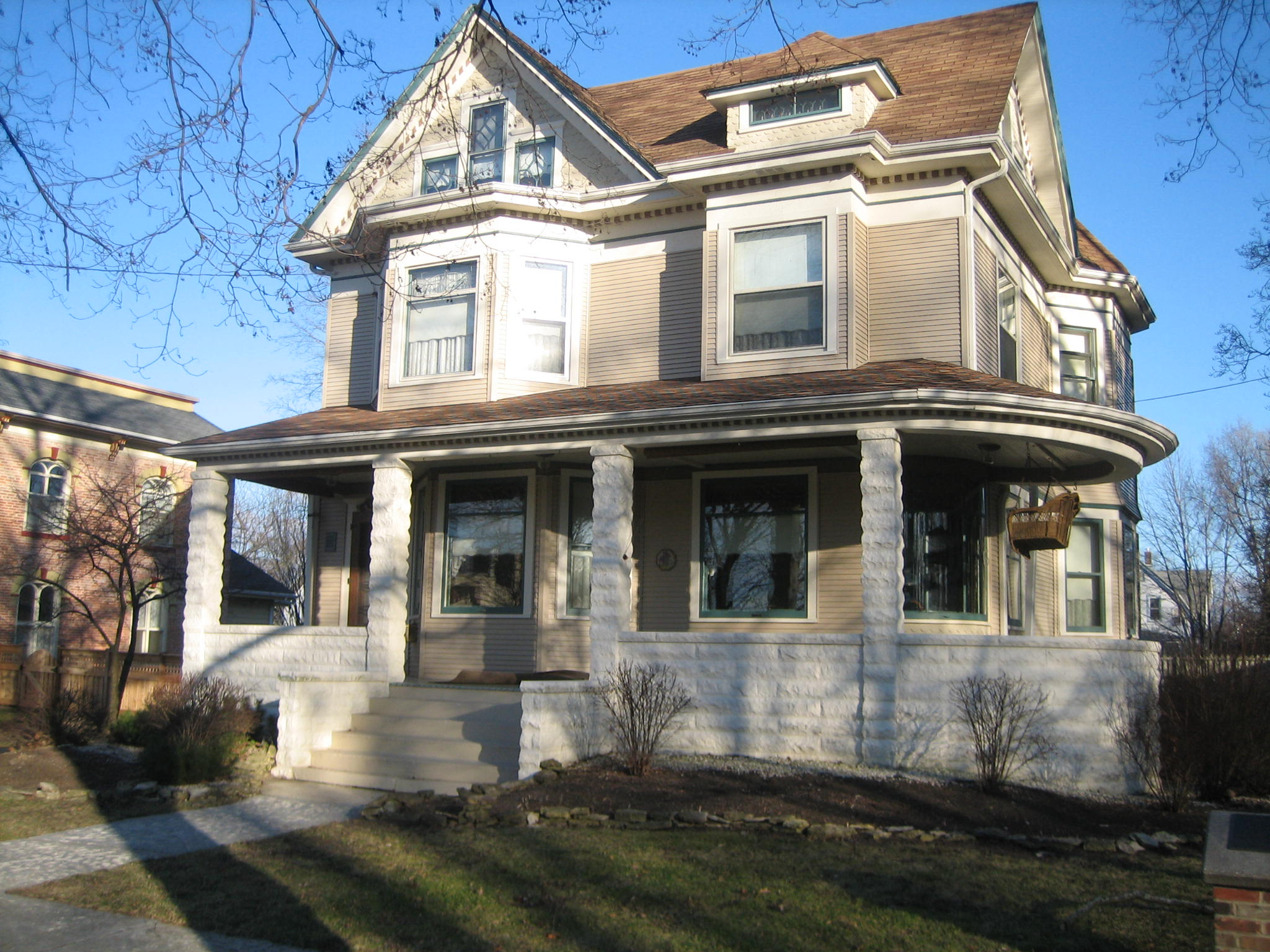 222 S. Main St., William McAllister House, Sycamore, Illinois. Sycamore Historic District, National Register of Historic Places.